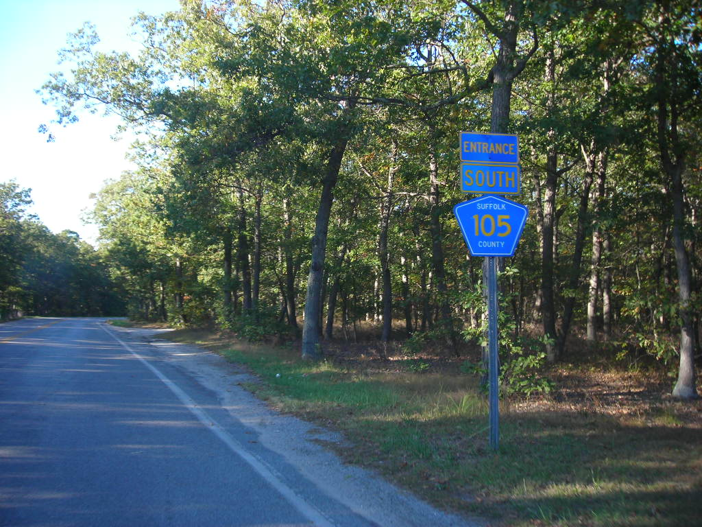 Unusual signage along Suffolk County Route 105 at its southern terminus.